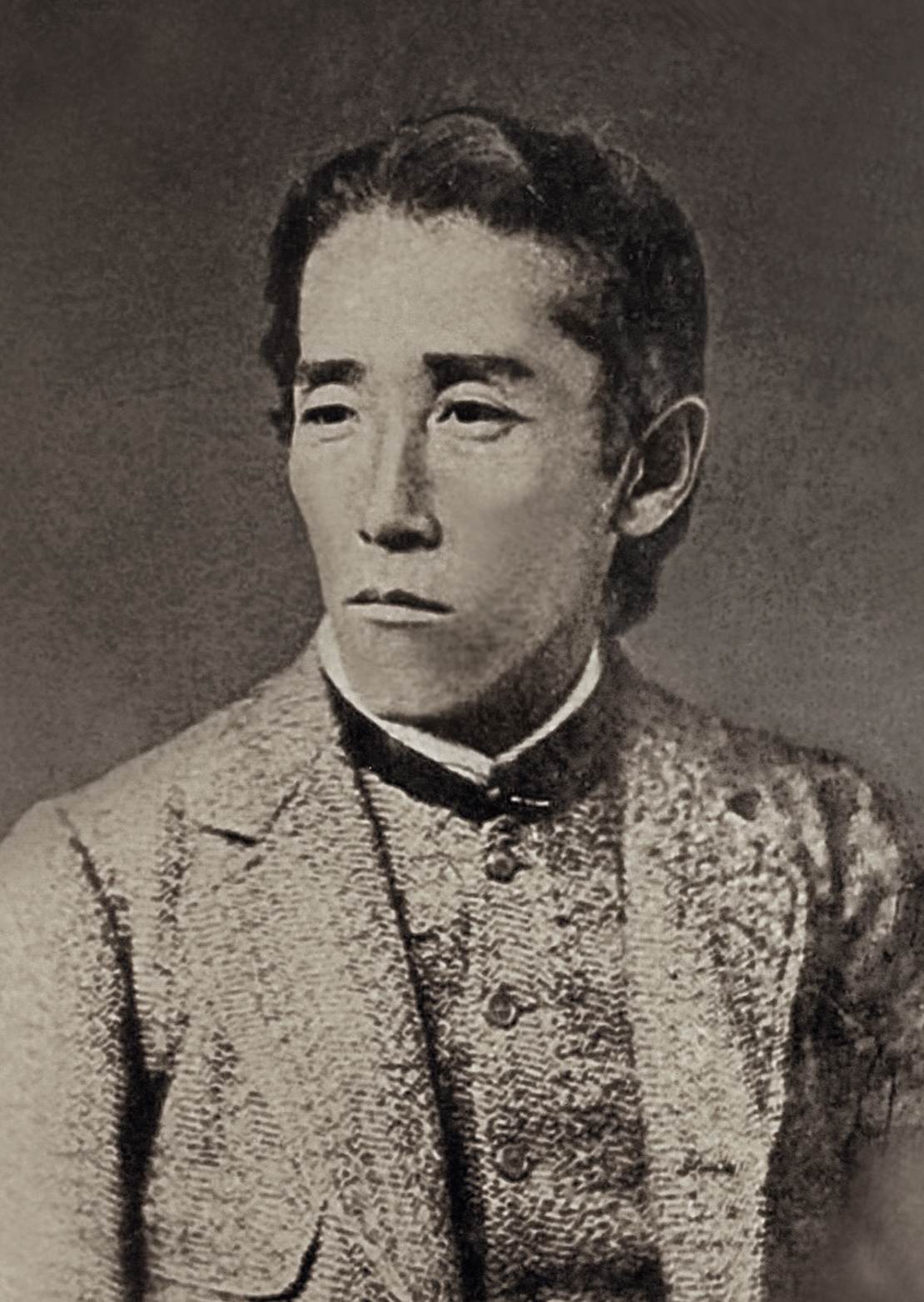 Portrait of Taisuke Itagaki (Japanese politician)